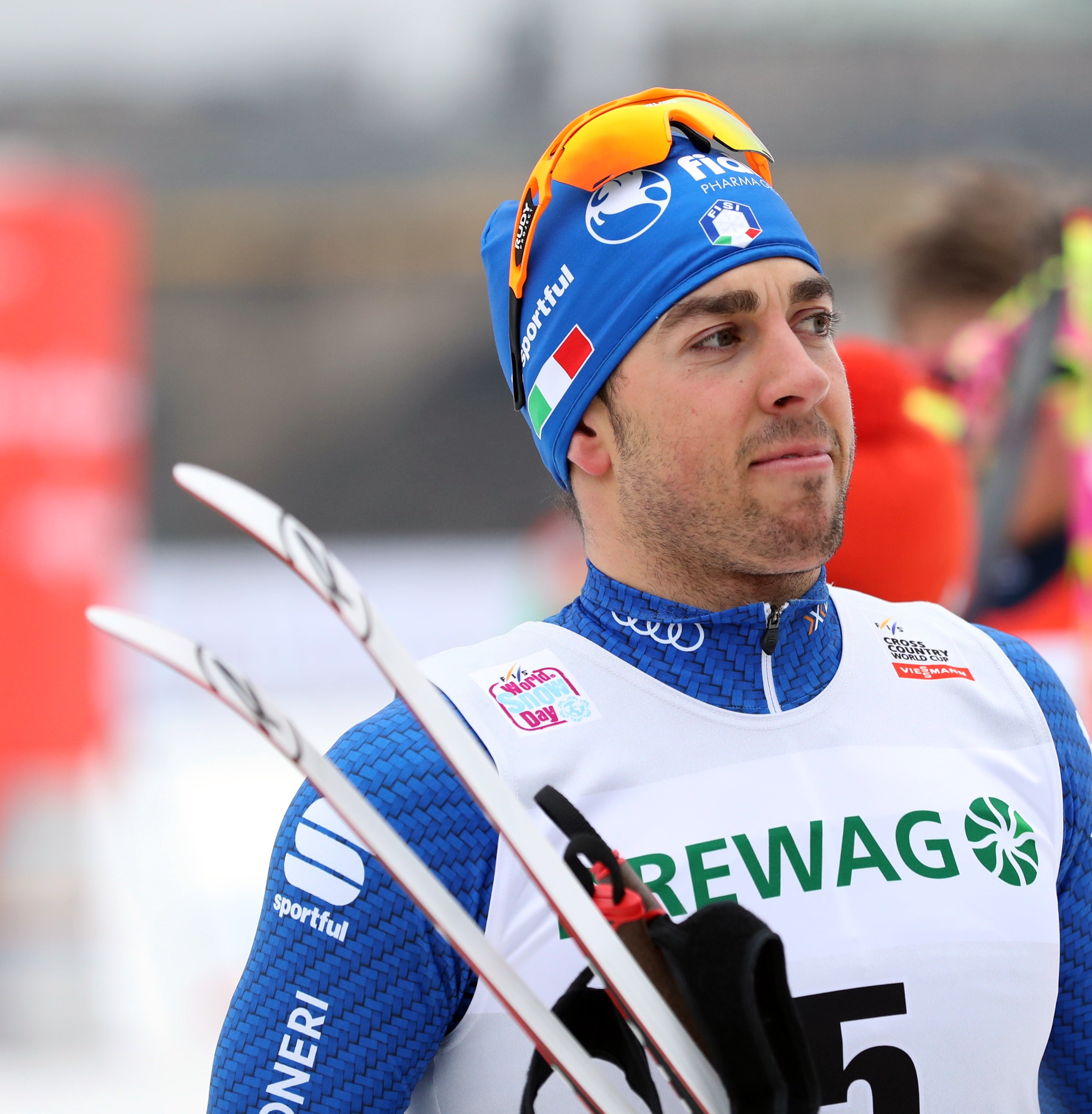 Mens Final at the FIS Cross-Country World Cup Dresden 2018: Federico Pellegrino